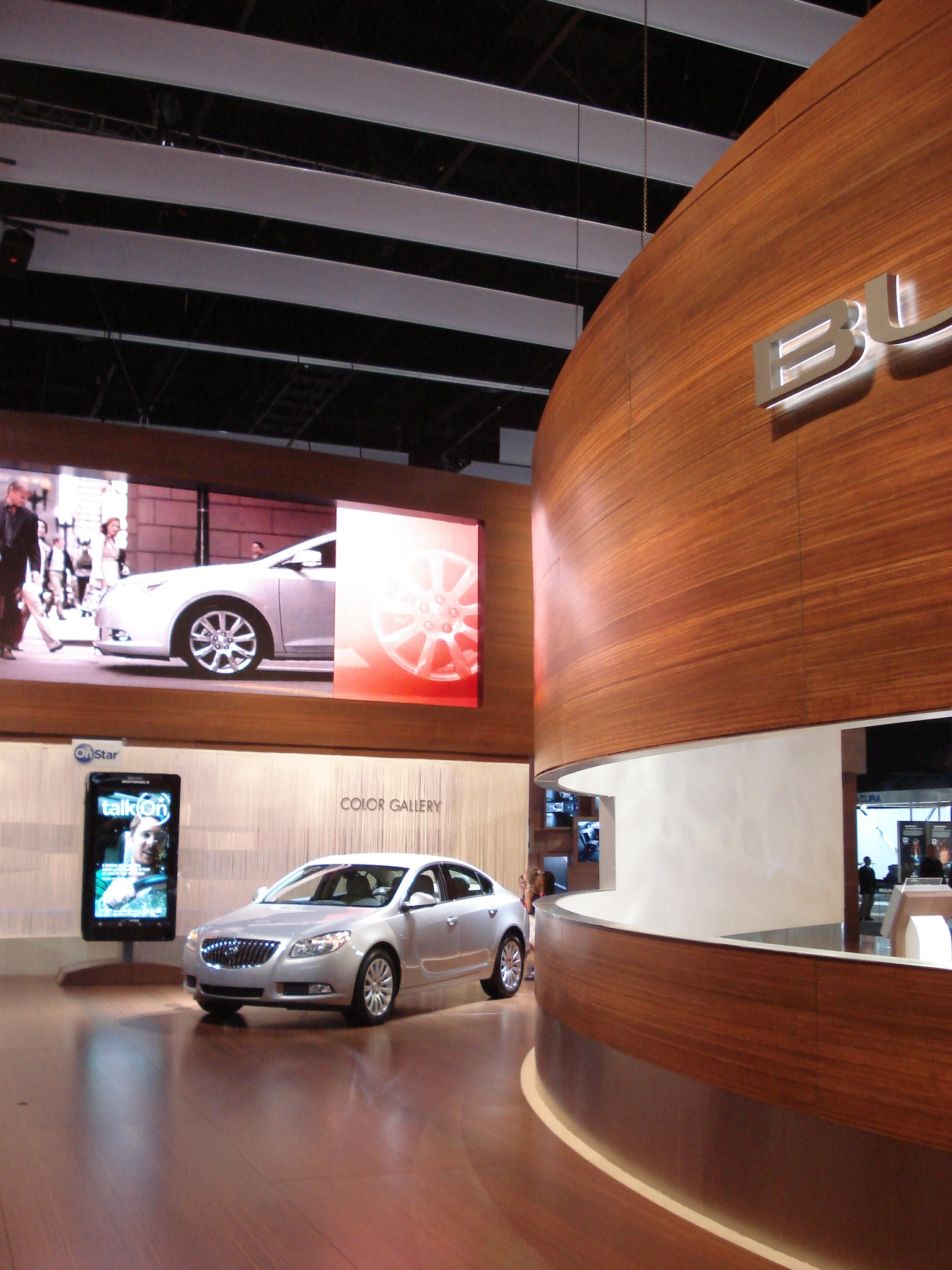 2011 Buick Regal at the Buick exhibit, 2010 LA Auto Show.